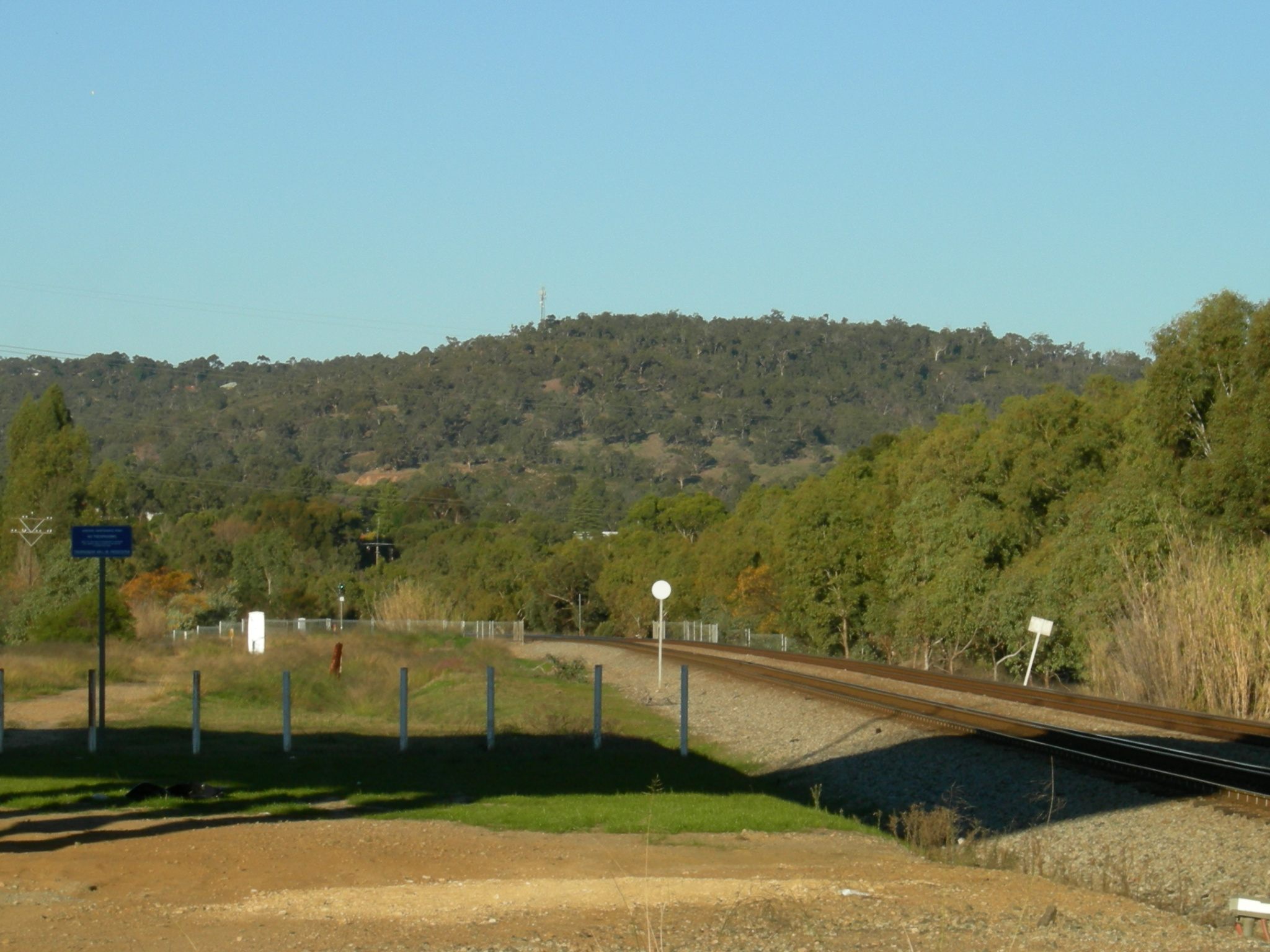 from under Roe Highway bridge - looking along the Eastern Railway (Western Australia) section where Bellevue Railway station was until 1965. Greenmount hill is at the rear. Facing east